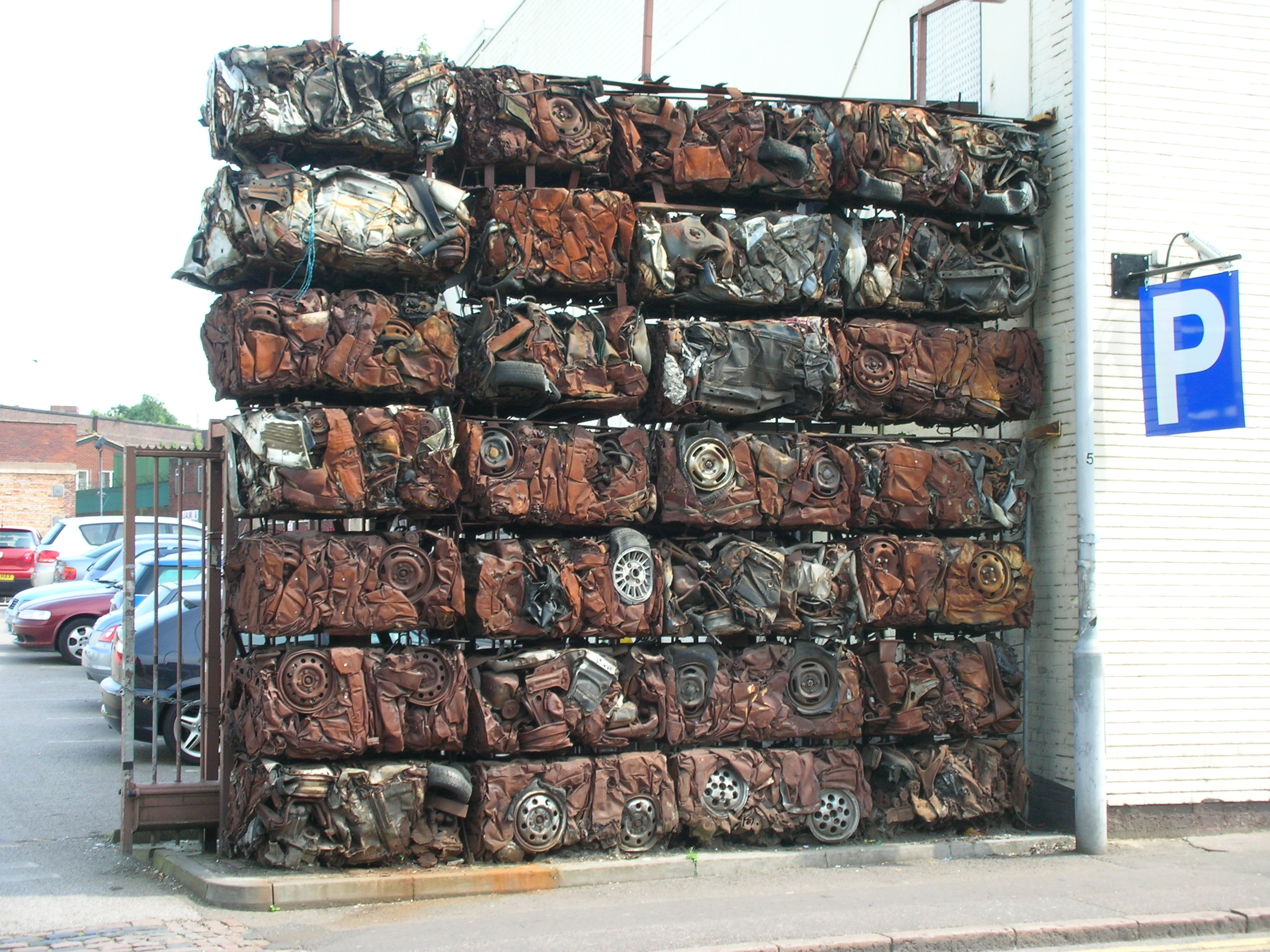 "Patrons park their car at their own risk". A car park entrance in Heath Mill lane, Deritend, Birmingham, England.